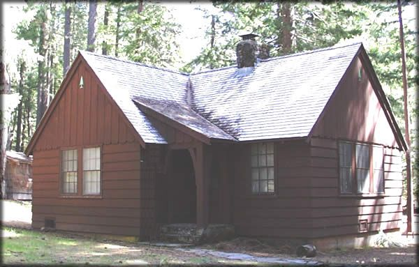 Imnaha Guard Station on the Butte Falls Ranger District in western Oregon